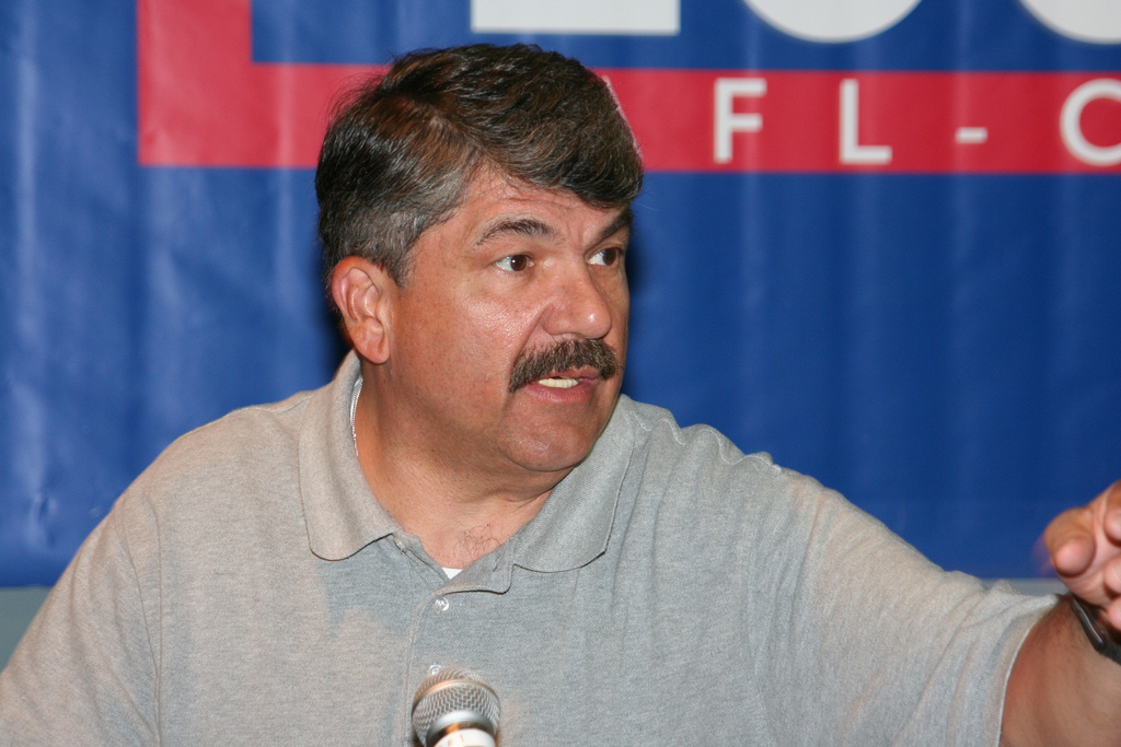 AFL-CIO Secretary Treasurer Richard Trumka at a "New Alliance Coordinating Committee" in 2008.